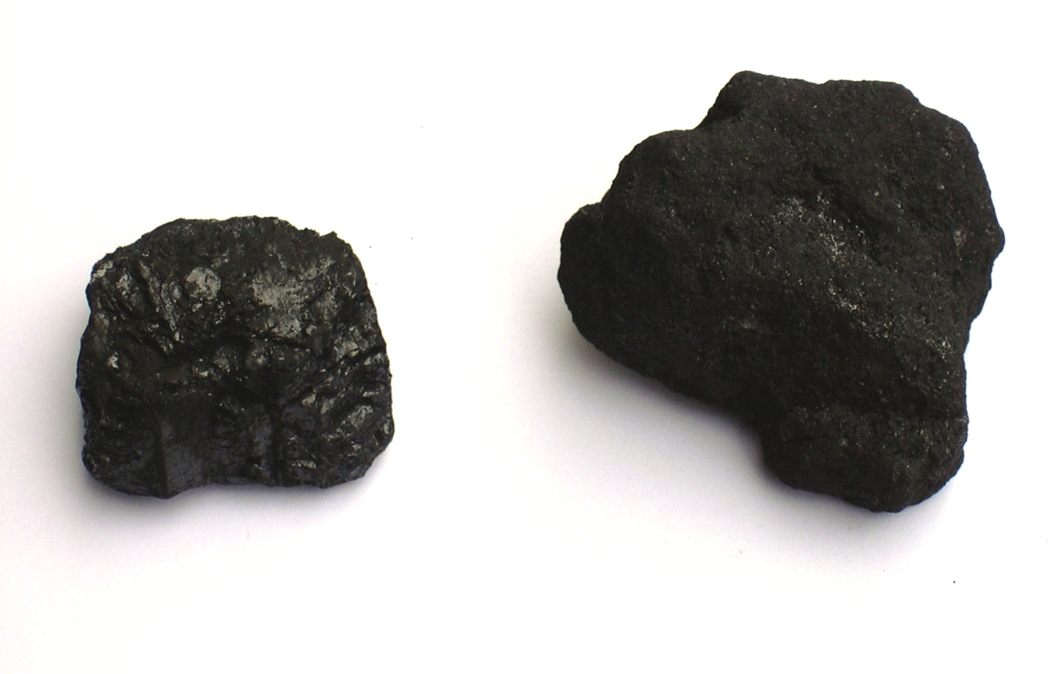 Charbon (left), Coke (fuel) (right)